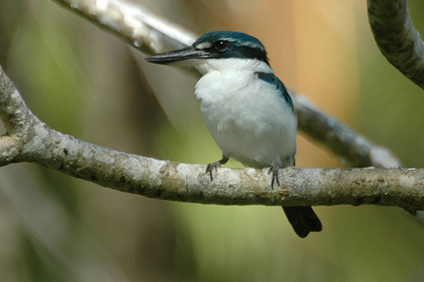 Male Collared Kingfisher (Todiramphus chloris vitiensis) on Fiji